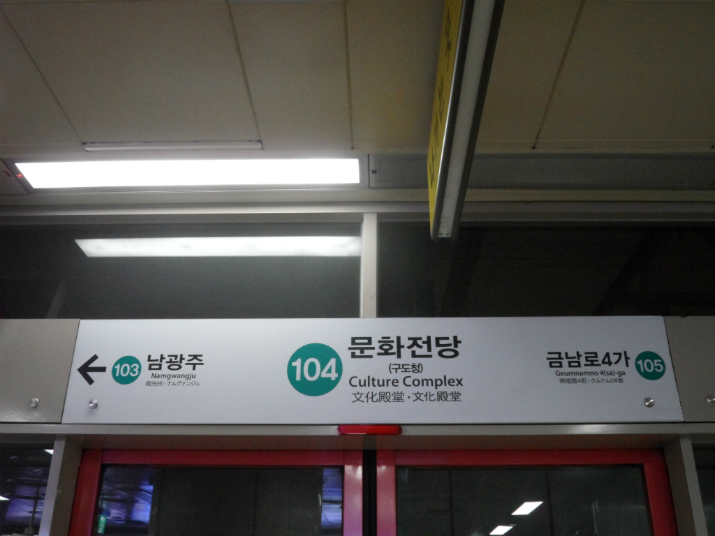 Nameplate of Culture Complex Station